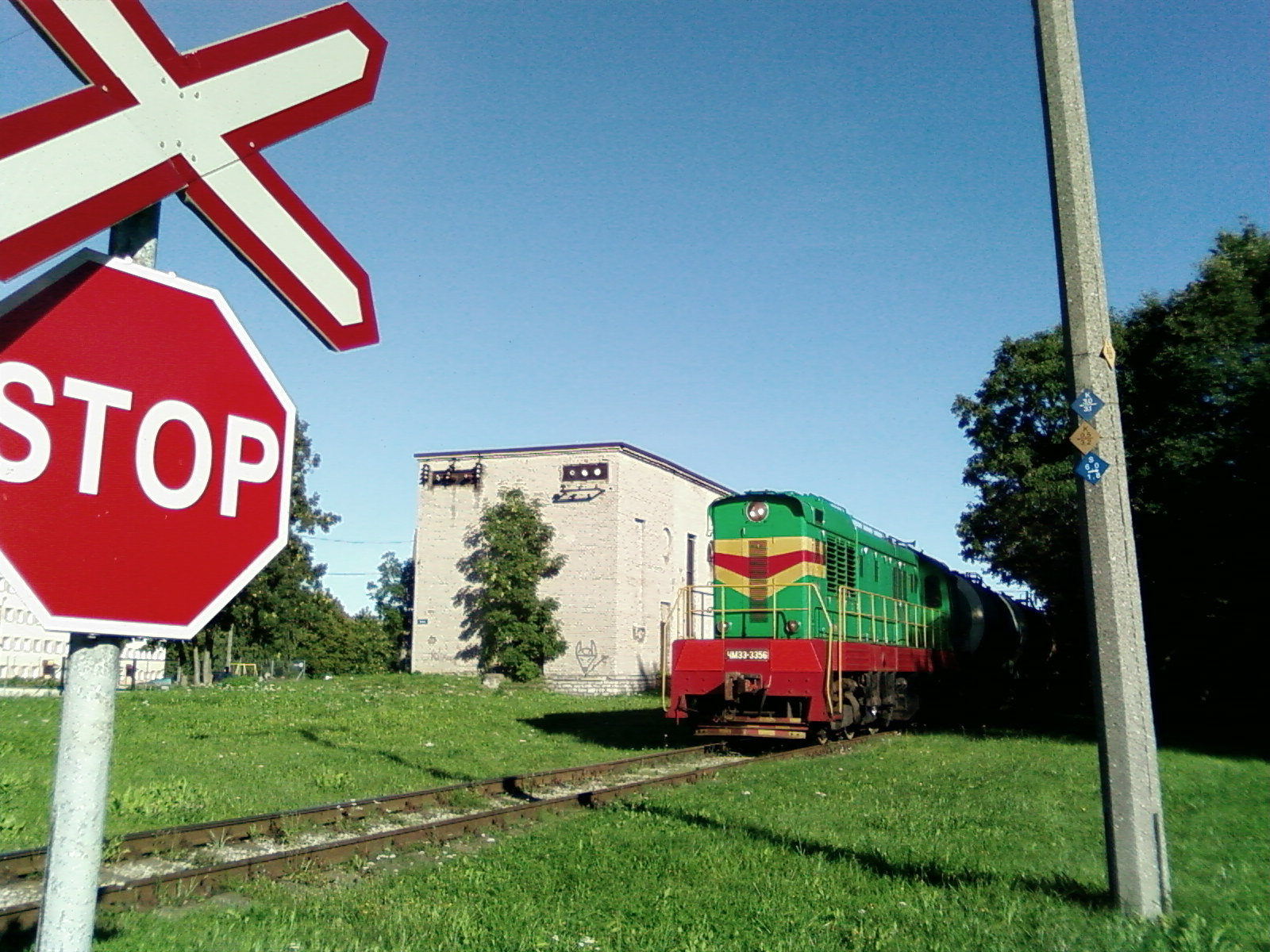 ChME3-3356 locomotive towing a train in Kopli, Tallinn.